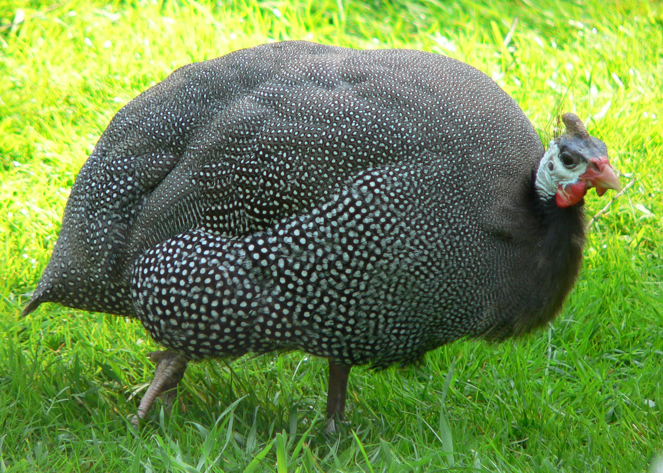 Numidia meleagris